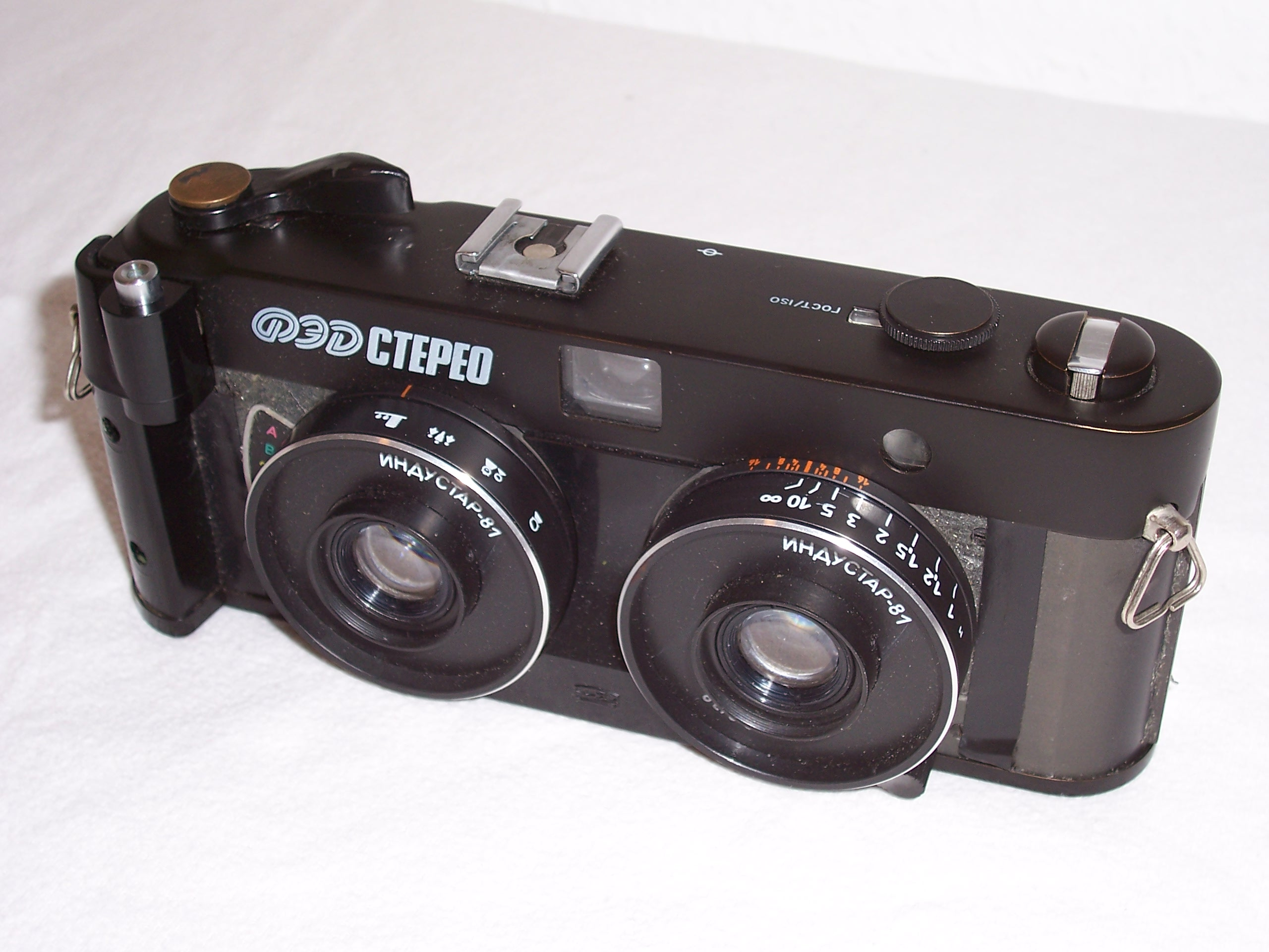 A used FED Stereo stereo camera (that already had some self repair)